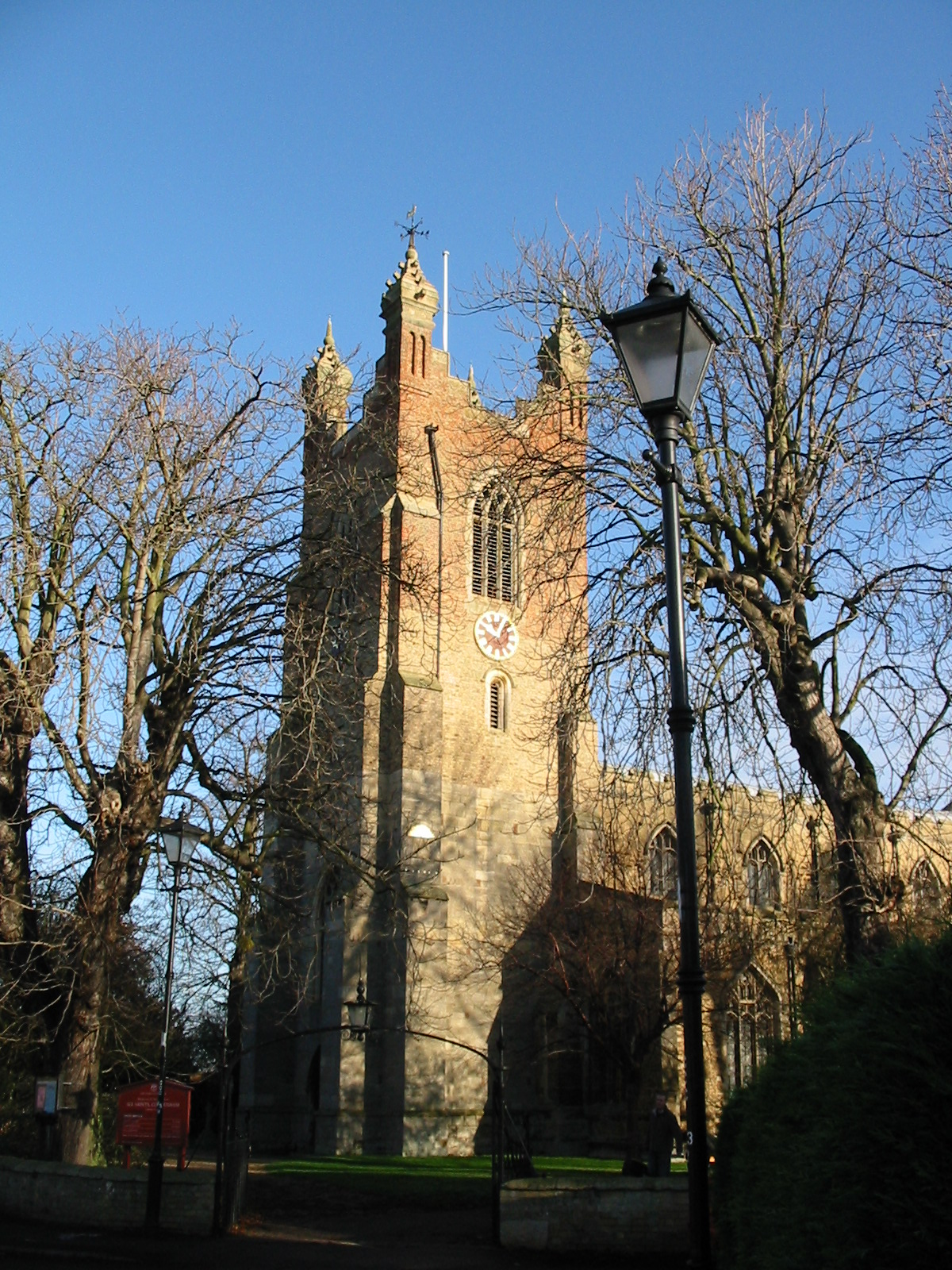 All Saint's Church, Cottenham in Cambridgeshire, United Kingdom. Taken by uploader, November 30th 2003.